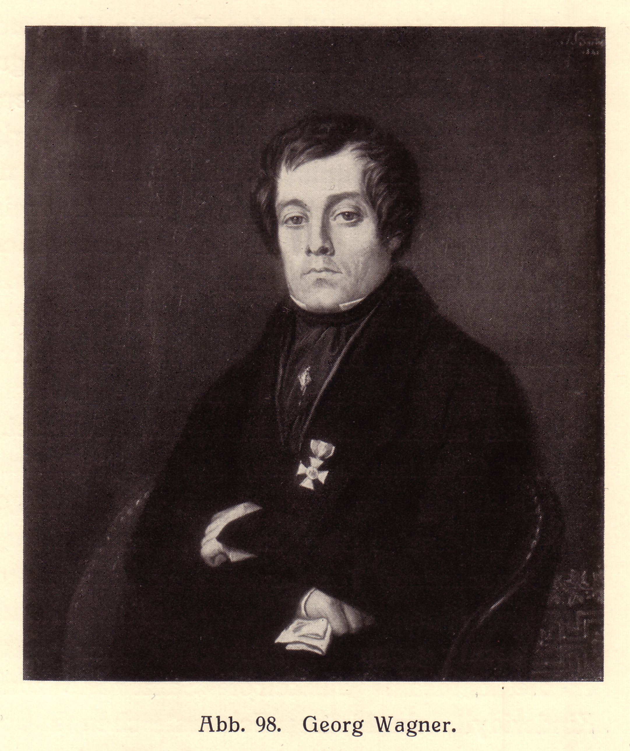 cloth manufacturer and chairman Gentlemen's Club: Georg Wagner (1788-1841)